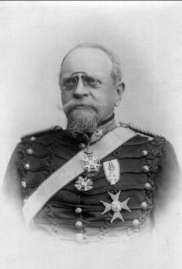 Major General Oskar Sylvander, Commandant of Karlsborg Fortress 1904-1911.